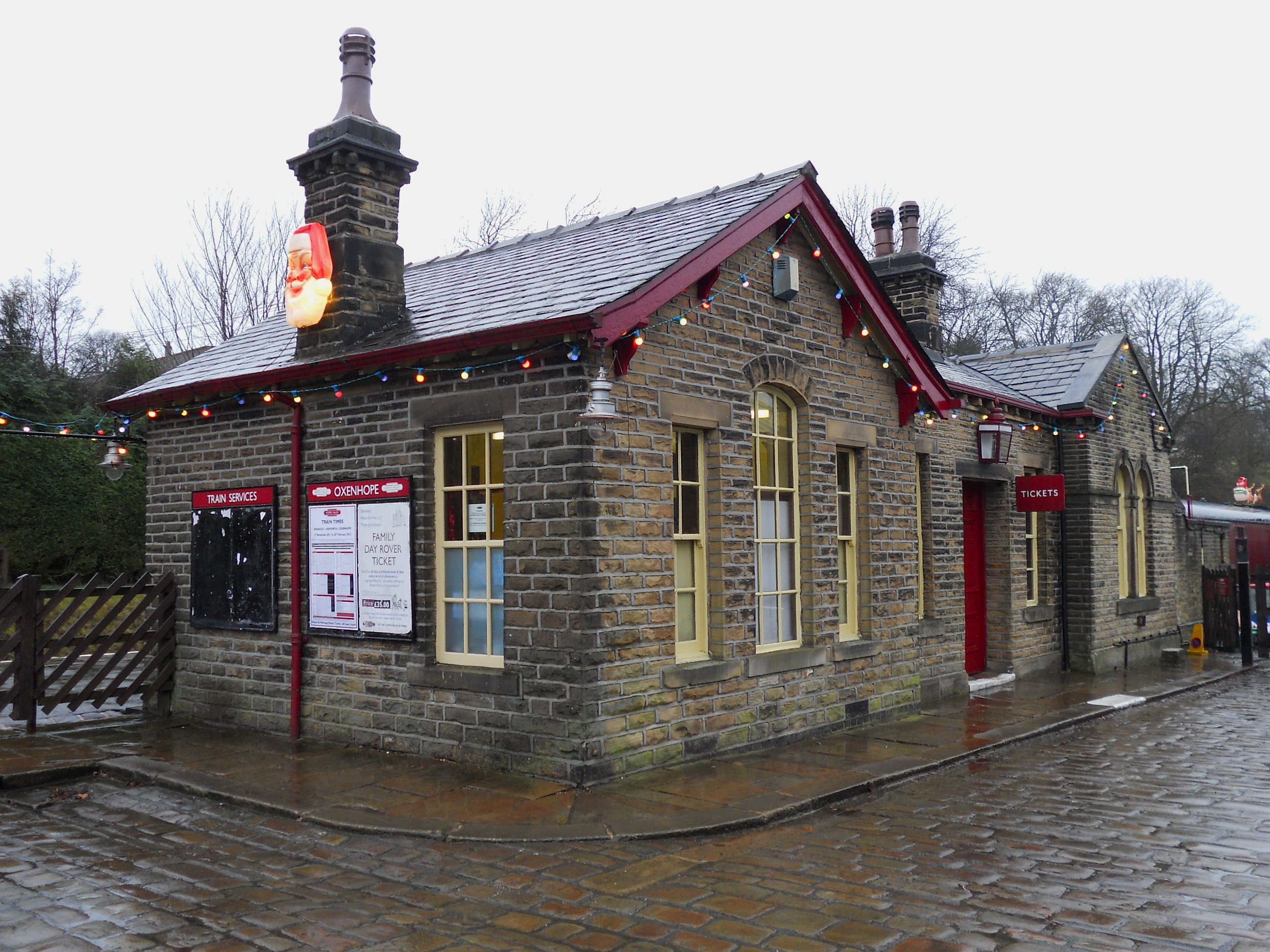 Oxenhope Station building on the Keighley and Worth Valley Railway